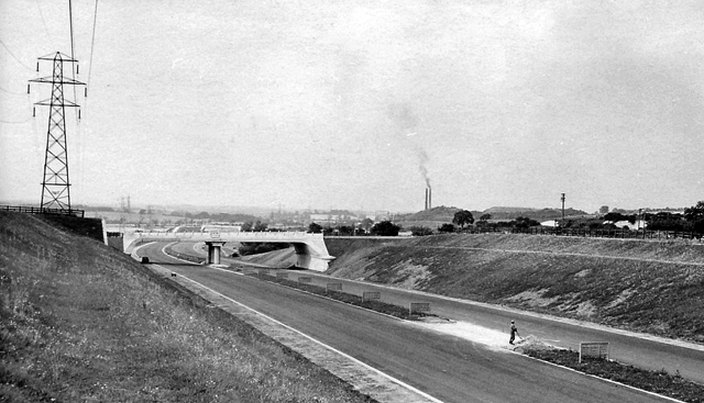 M1 Motorway under construction. The original M1 nearing completion, at Chalton south of Toddington Services: view NNW just south of stretch where Midland Main Line runs parallel just to the east. Note also the HT Grid pylons and chimneys of Sundon Brickworks.